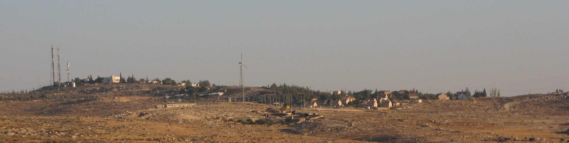 Bet Yatir as seen from Susya